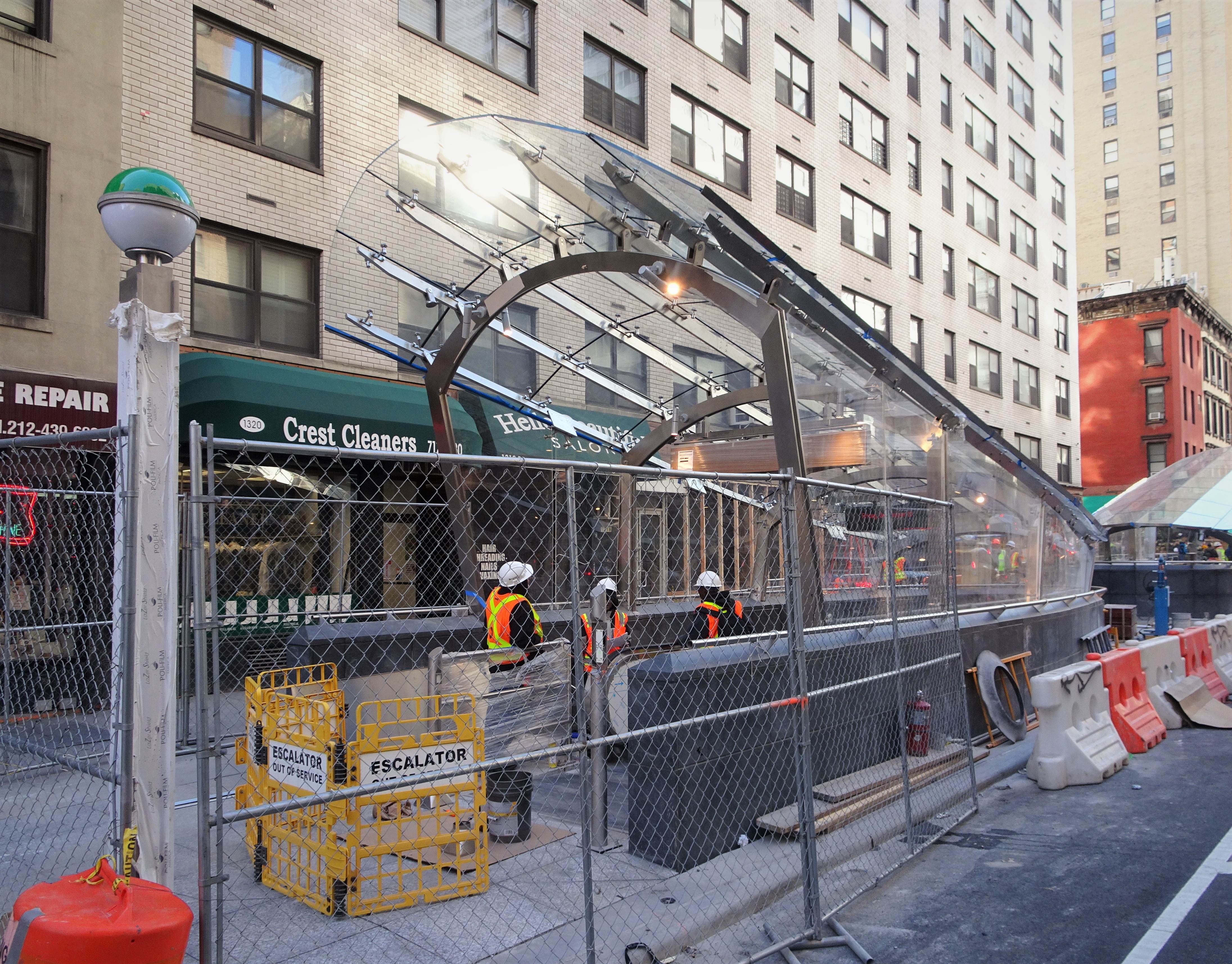 Looking south from 70th Street at canopy of not yet opened station